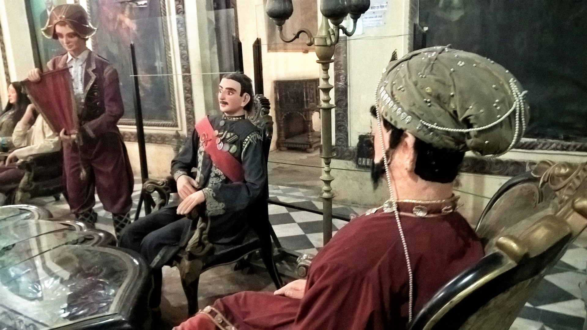 Mohammed Ali Palace Museum & Park also known as Palace Museum in Bogra is the eminent archaeological sight located in Bogra.